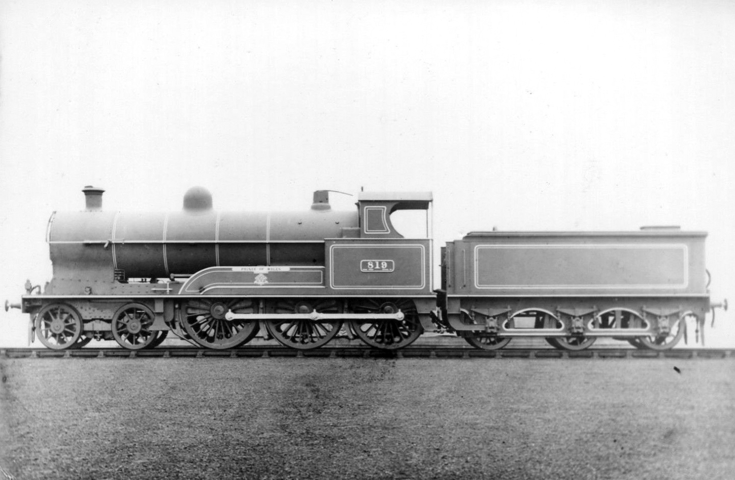 Photograph of LNWR engine No. 819 'Prince of Wales'